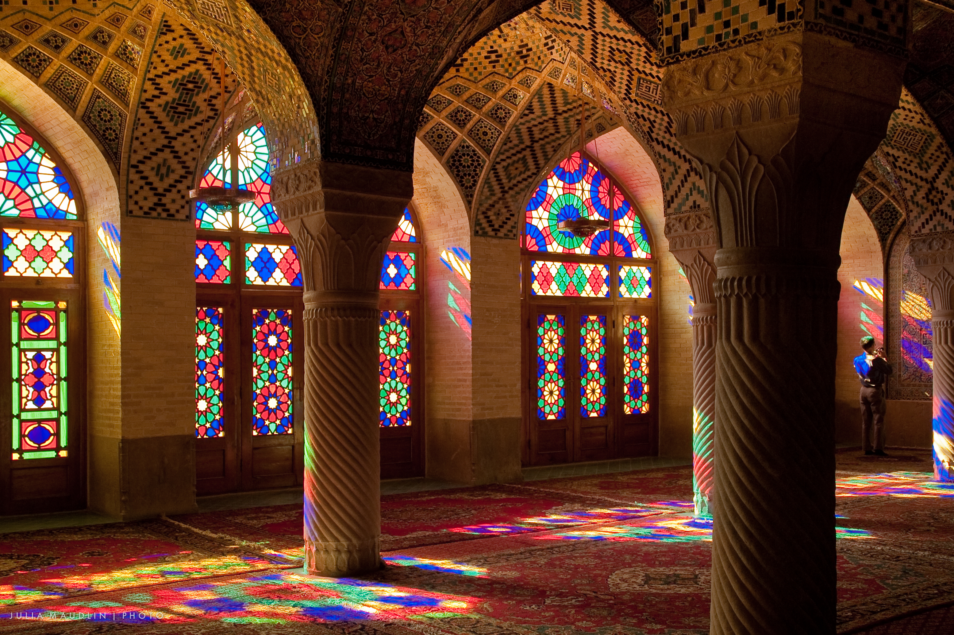 Colors Streaming, Winter Prayer Hall, Nasir-Ol-Molk Mosque, Shiraz